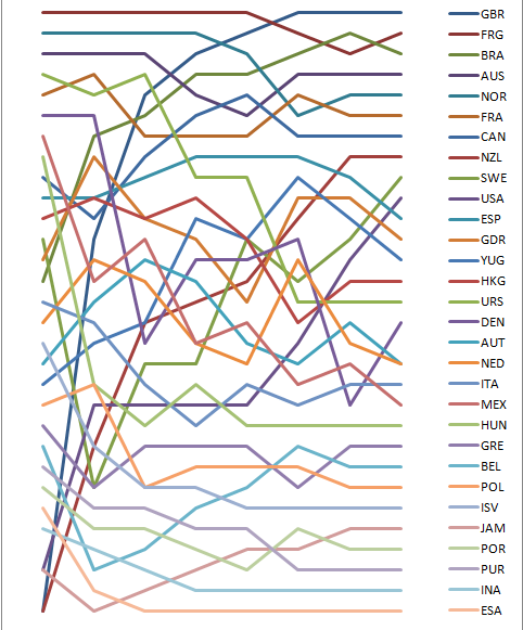 1968 Olympic Sailing Daily Standings FD